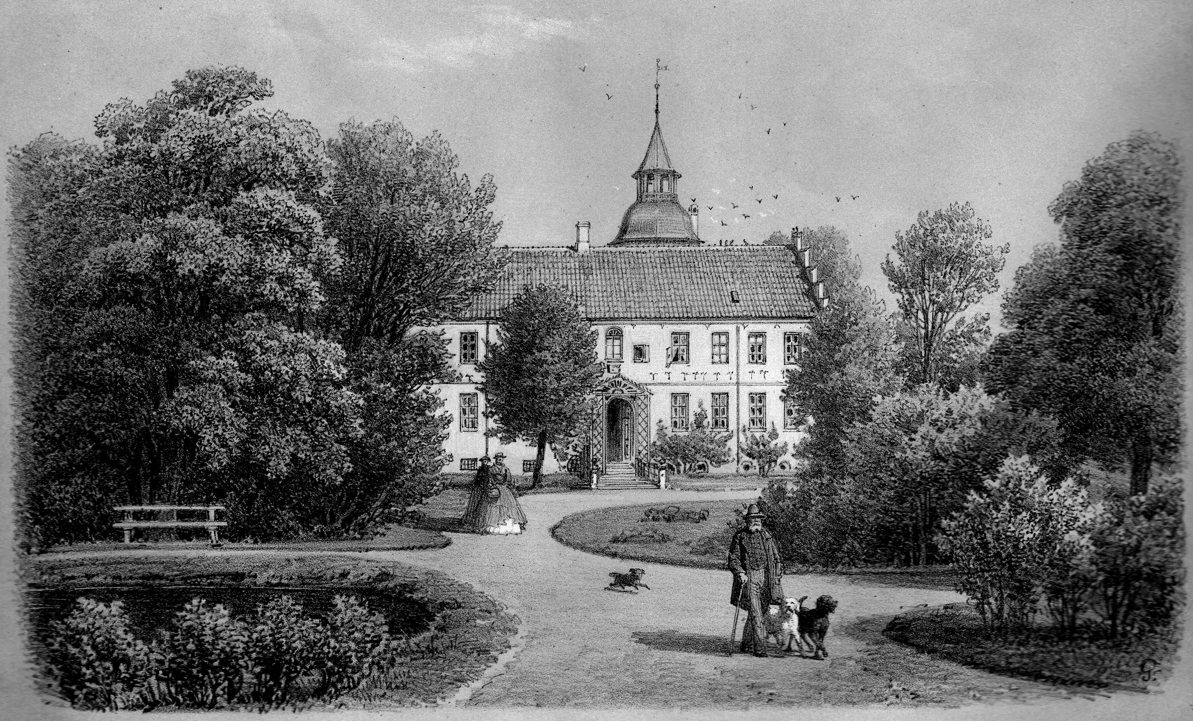 Scanned by myself from a copy of the old book in 2007. The book was graciously lent to me by Det Kongelige Garnisonsbibliotek.